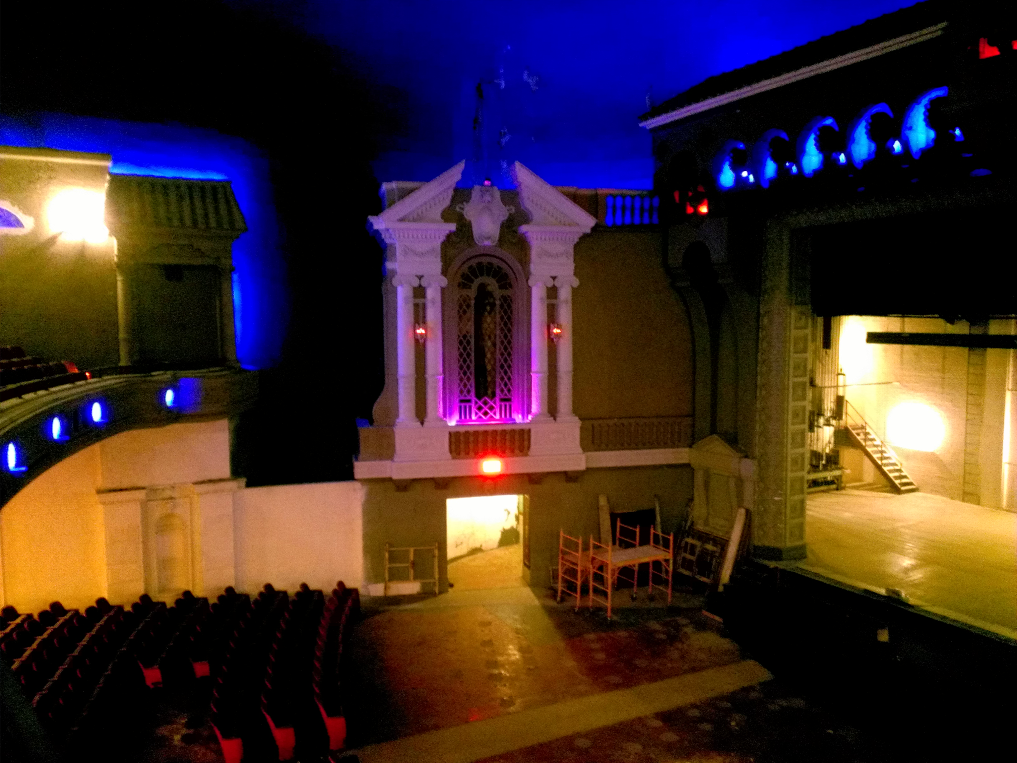 This is a photo of the Capitol Theatre in June 2013